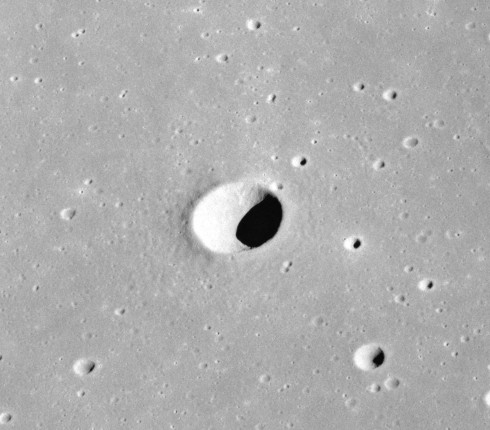 Borel, on the moon.